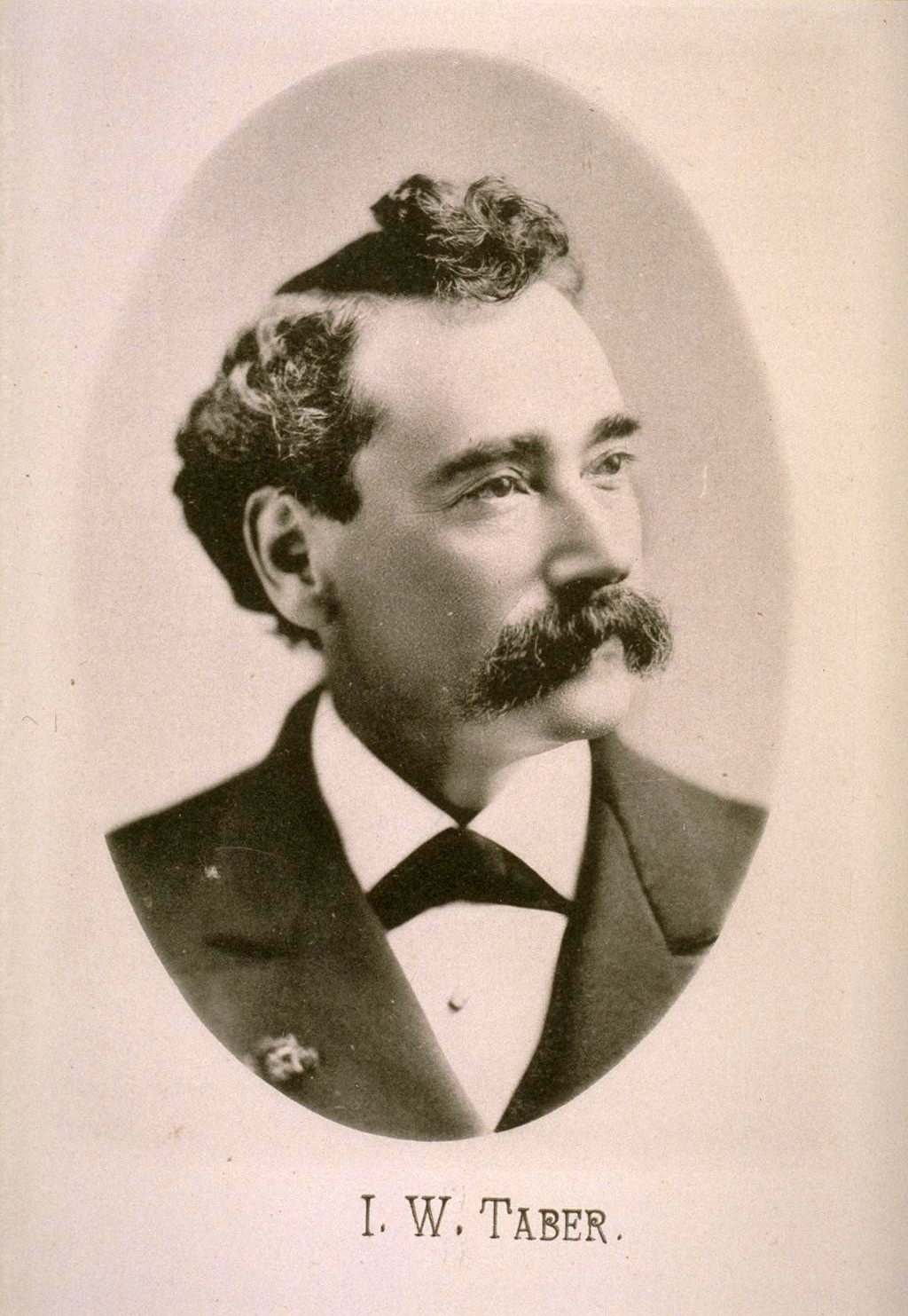 I.W. Taber (1830-1912), American photographer